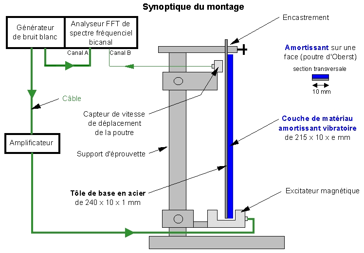 Oberst beam test method.